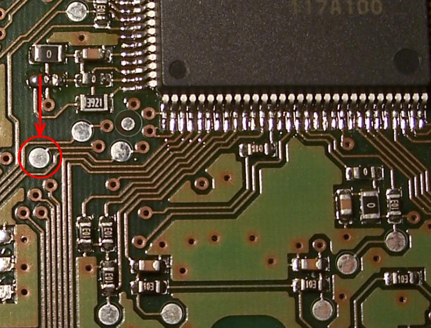 PCB with testpads